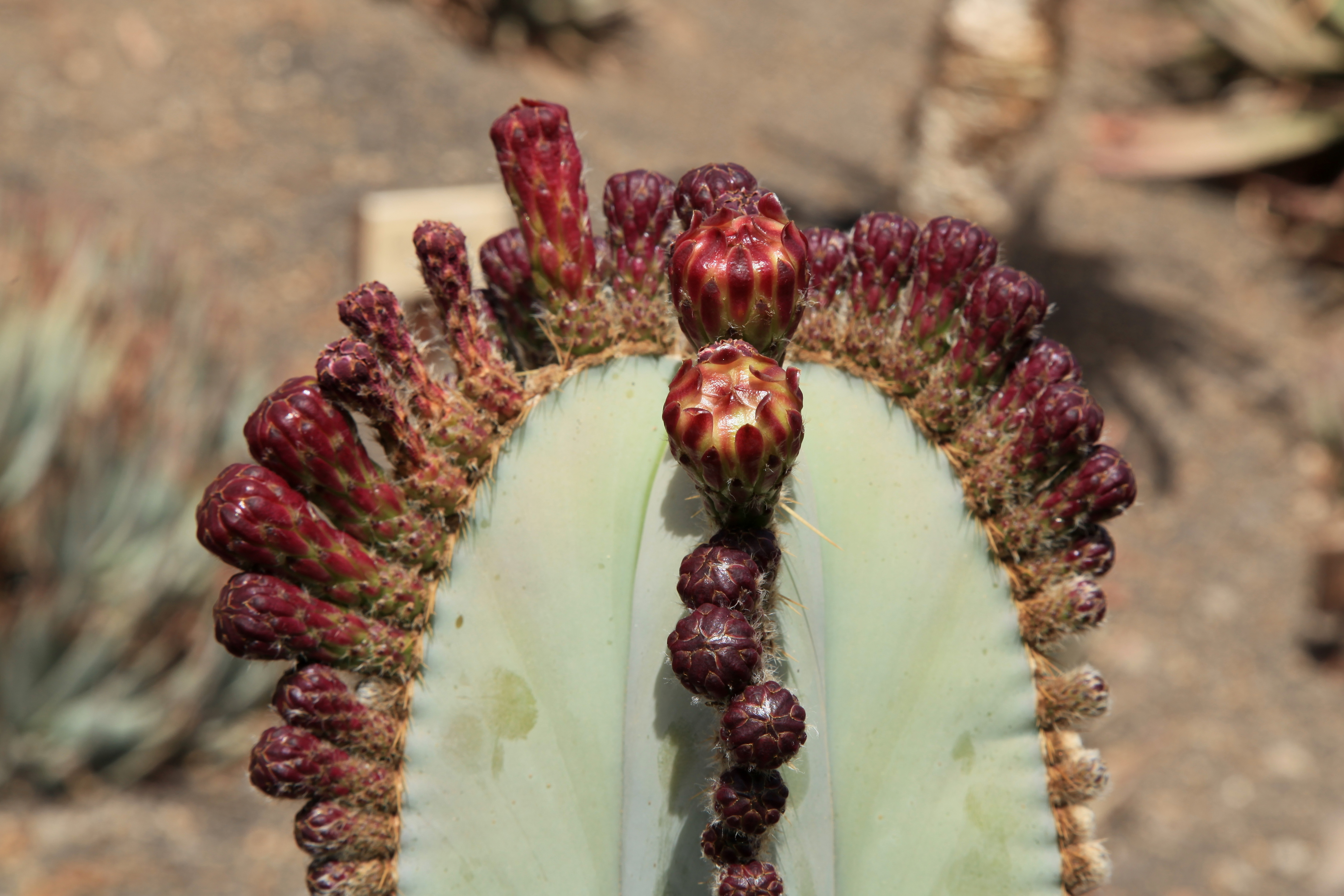 Pachycereus marginatus in the Oasis Park in La Lajita, Pájara, Fuerteventura, Canary Islands